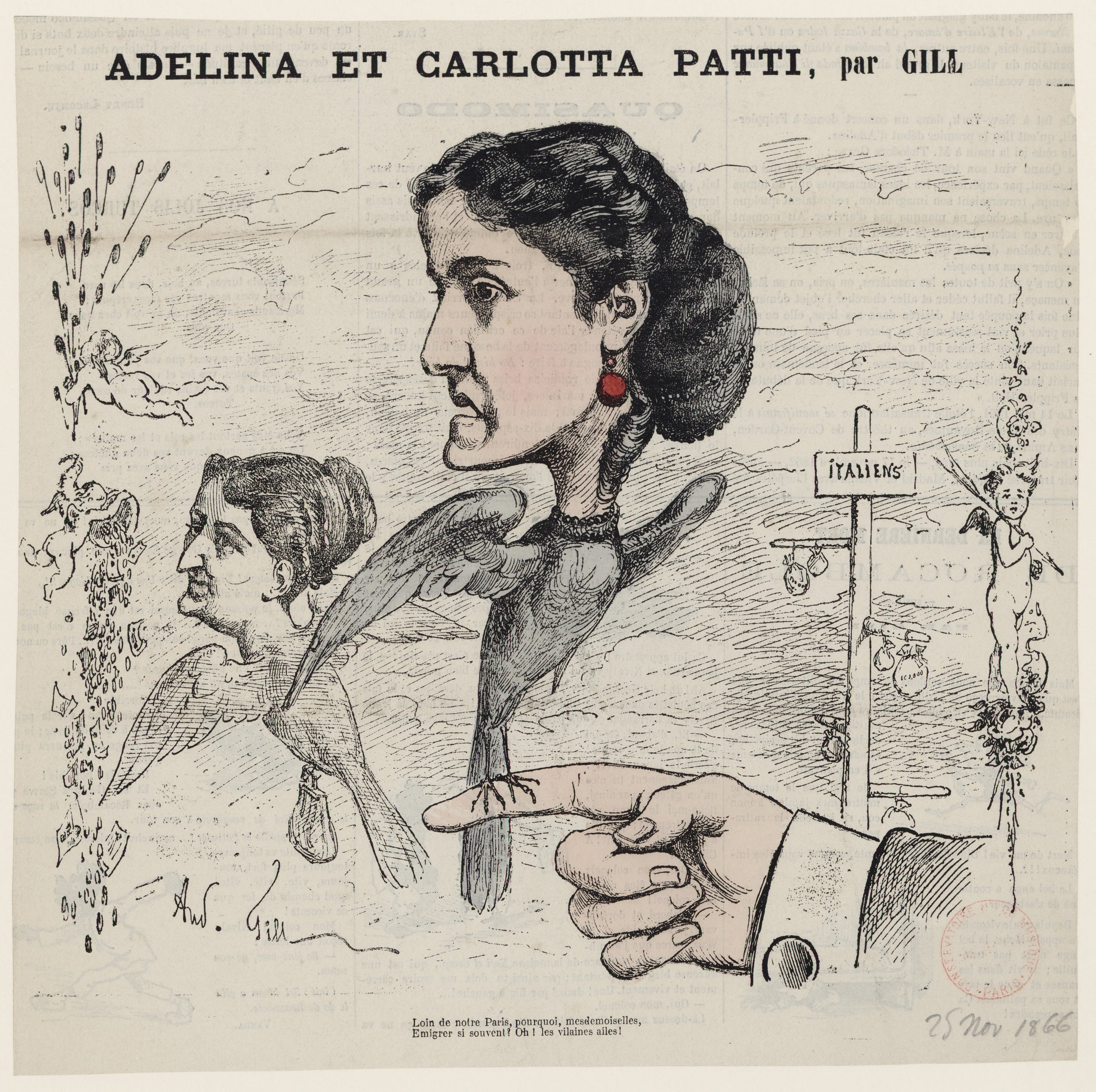 Portrait of Adelina Patti